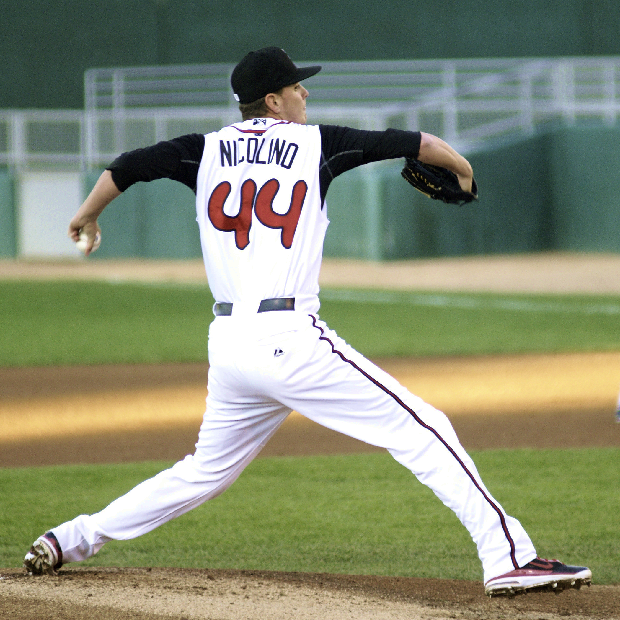 Justin Nicolino